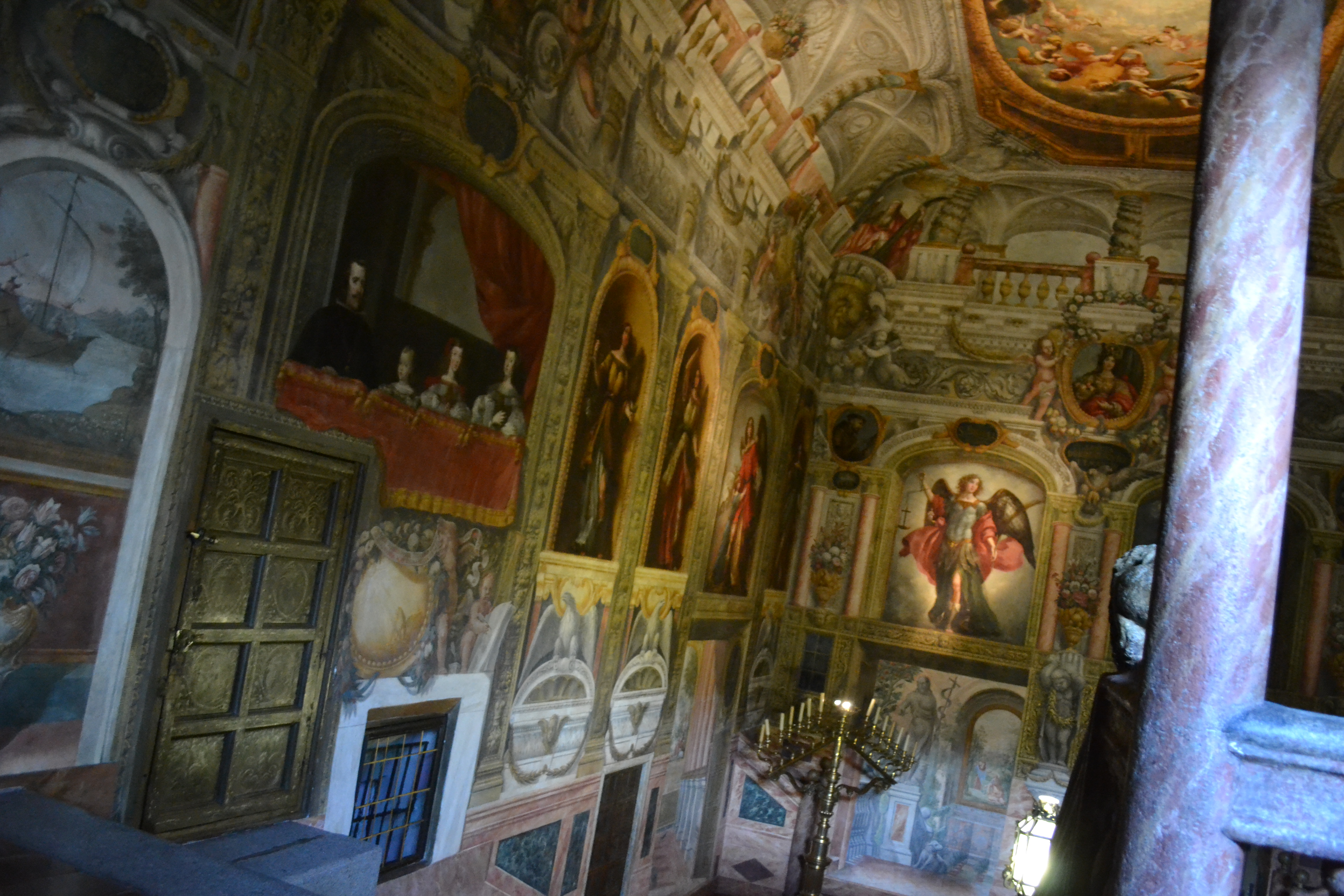 Monastery of Las Descalzas Reales, Madrid.